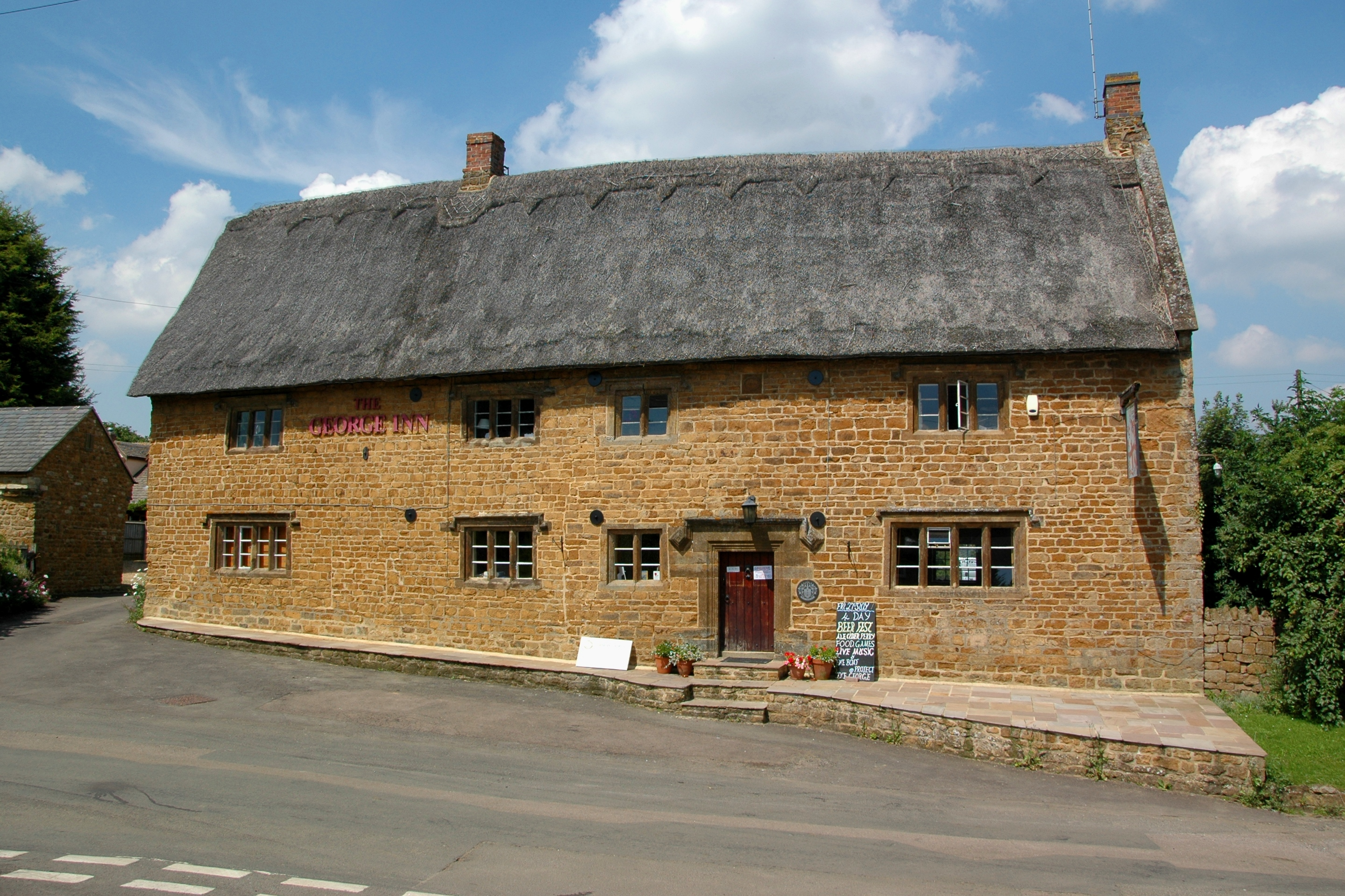 George Inn, Barford St Michael, Oxfordshire: view from the south